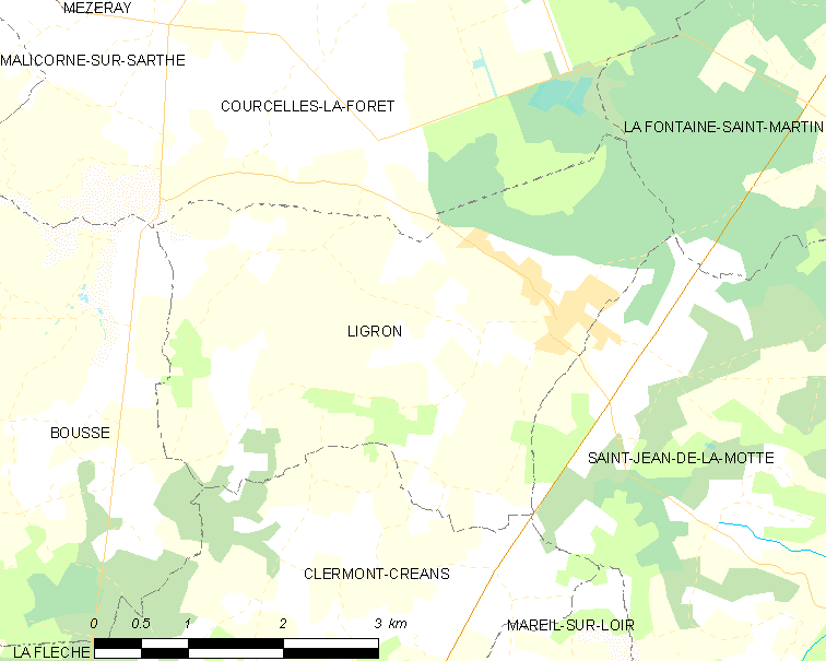 Map of French municipality